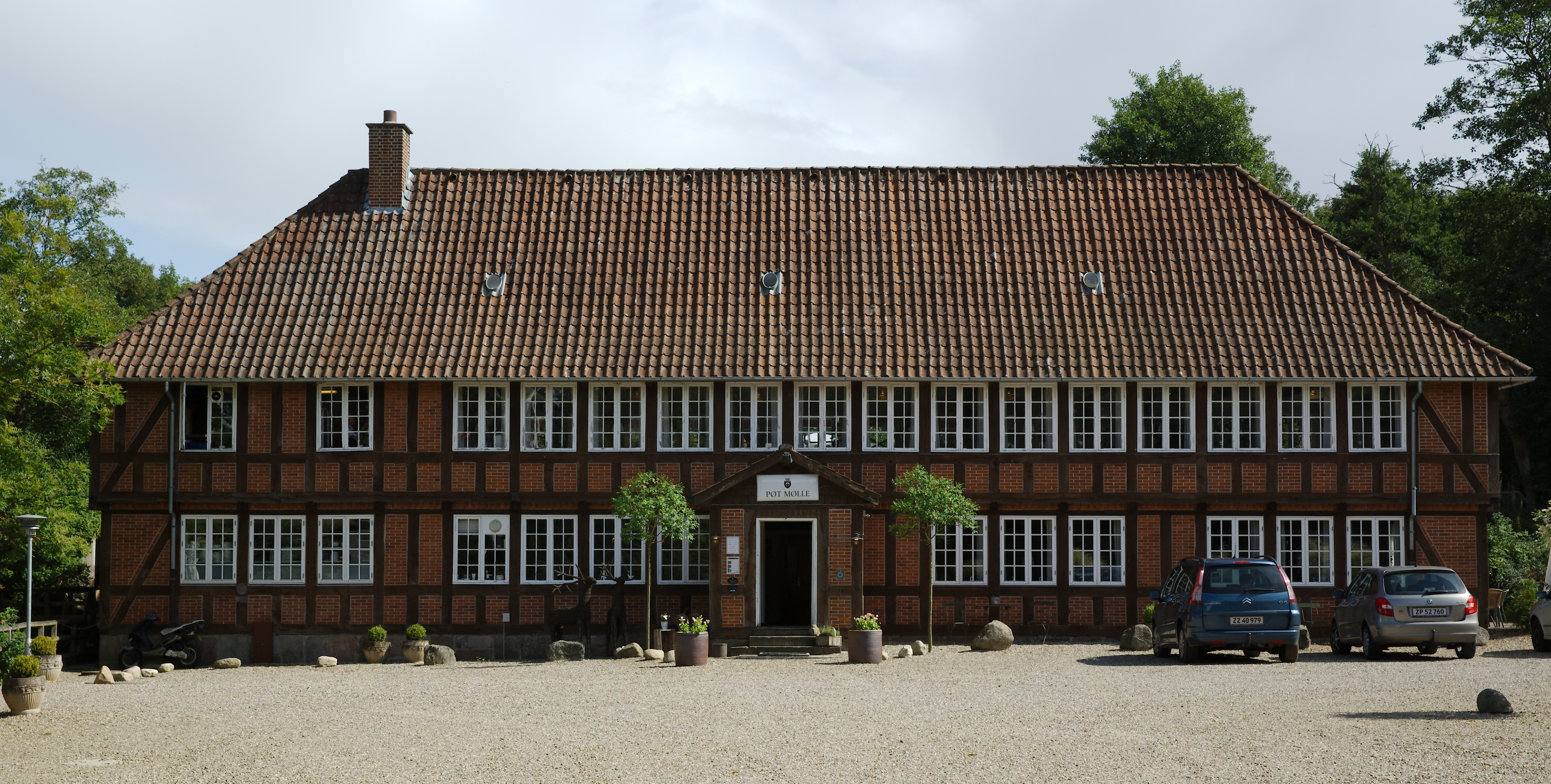 Pøt Mølle seen from the drivewayDansk: Pøt Mølle set fra indkørslen